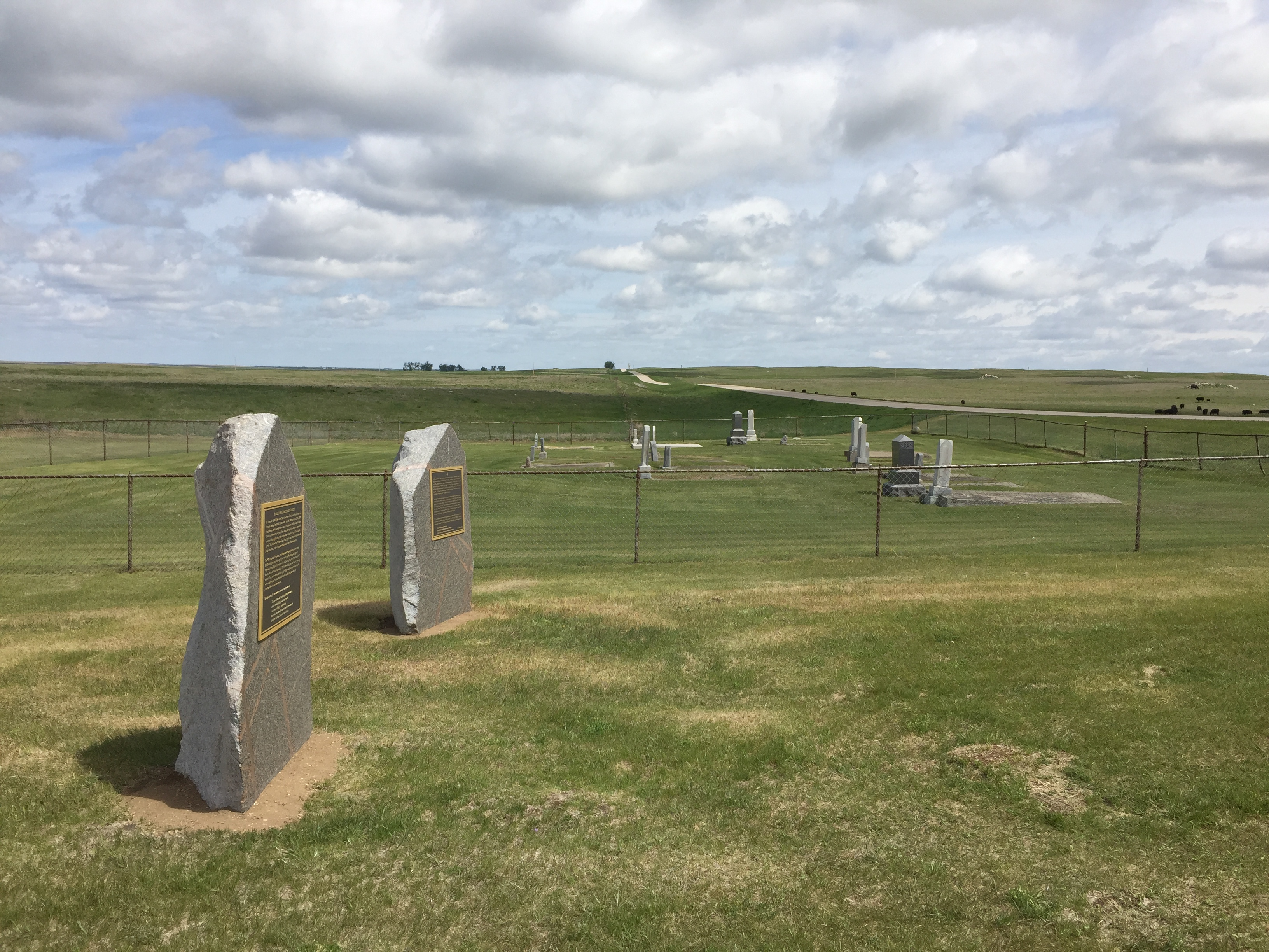 Nation Register of Historic Places